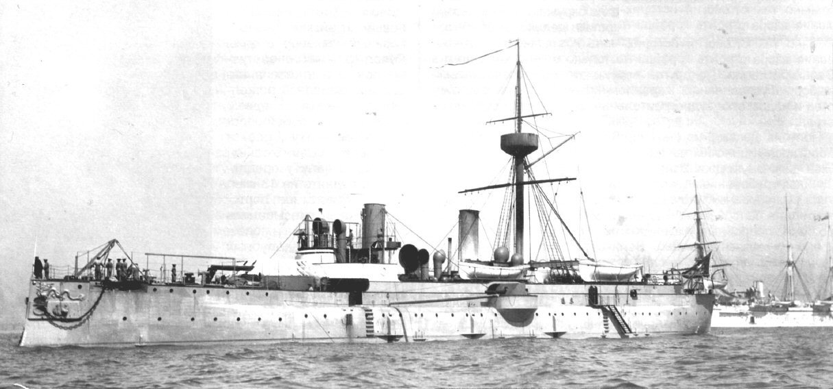 Chinese armoured cruiser Jingyuan (King Yuan), 1885-1894. Note: this photo is described King Yuan also in Conway's All the World's Fighting Ships, 1860-1905. According however to R.N.J. Wright: The Chinese Steam Navy, this is a sister ship Lai Yuan in the Solent in 1887. The file NH 2089-A at history.navy.mil also identifies her as the Laiyuan.